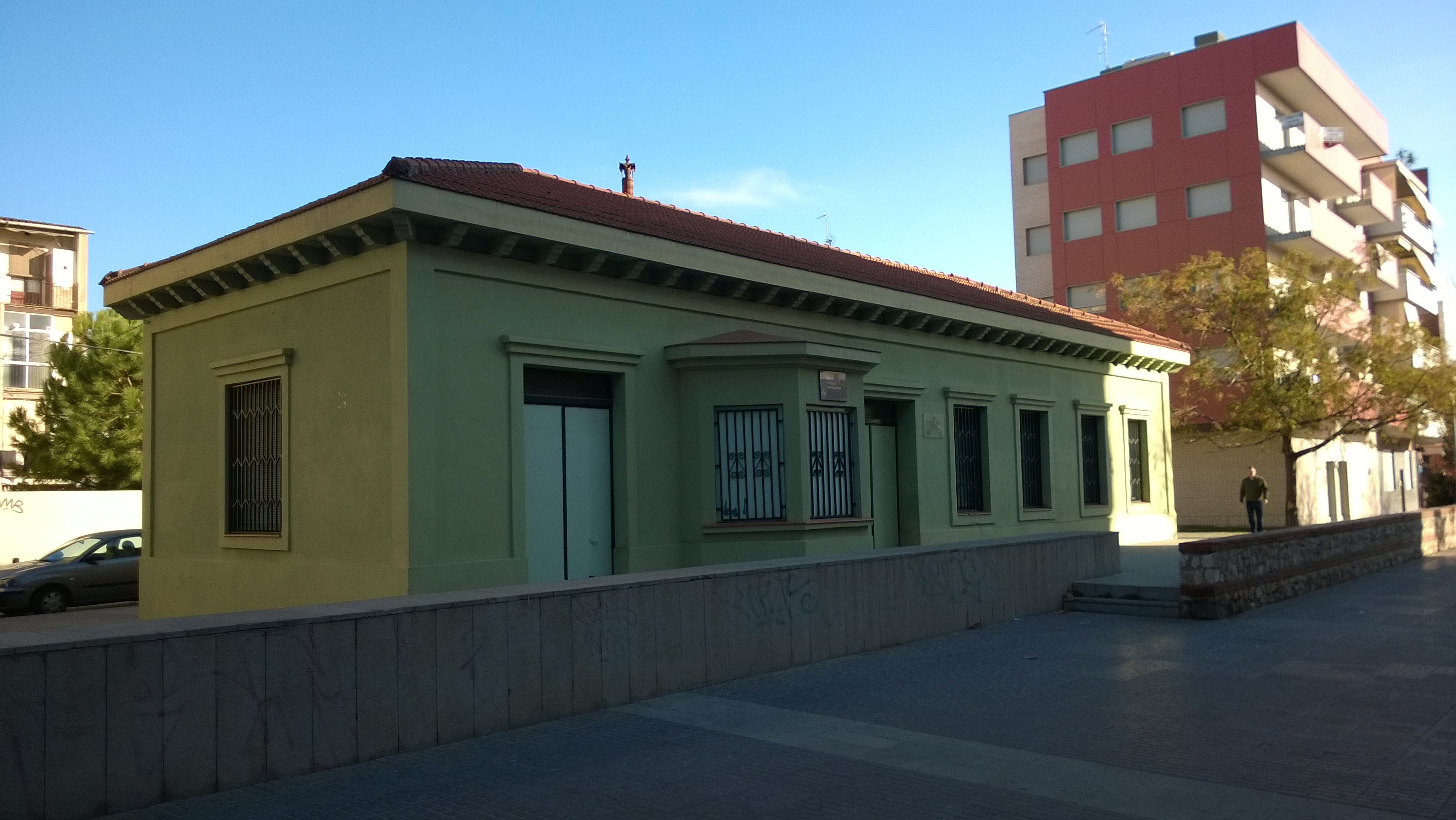 Train station in 2014